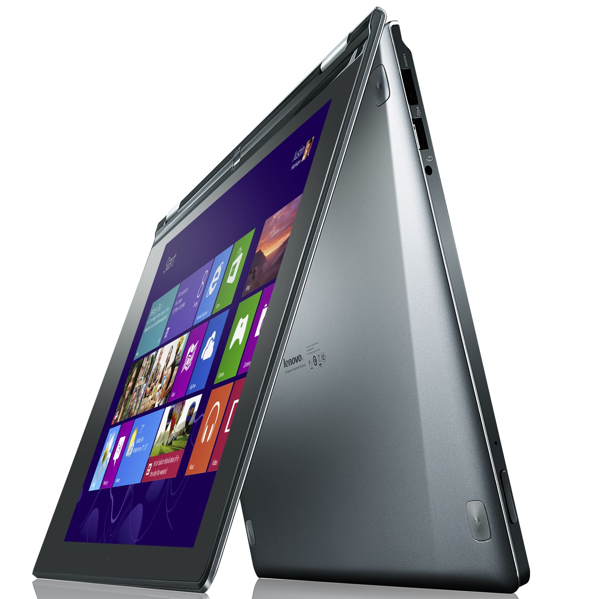 See more: Back to School Computer Buying Tips Choose the right 2 in 1, tablet, Ultrabook, laptop, desktop all-in-one, laptop, or smarphone to gear up your child for the school year. With summertime winding down, it's time for parents and kids to gear up for the school year and that means selecting the right technology. With so many different types of devices being advertised today -- from desktop PCs, laptops and Ultrabooks, 2 in 1s, phones to tablets -- finding the right product at the right price is more challenging than ever. School-bound students may know already what computer or smartphone they want, but these tips will help parents guide their child to make the right choice that fit their needs.